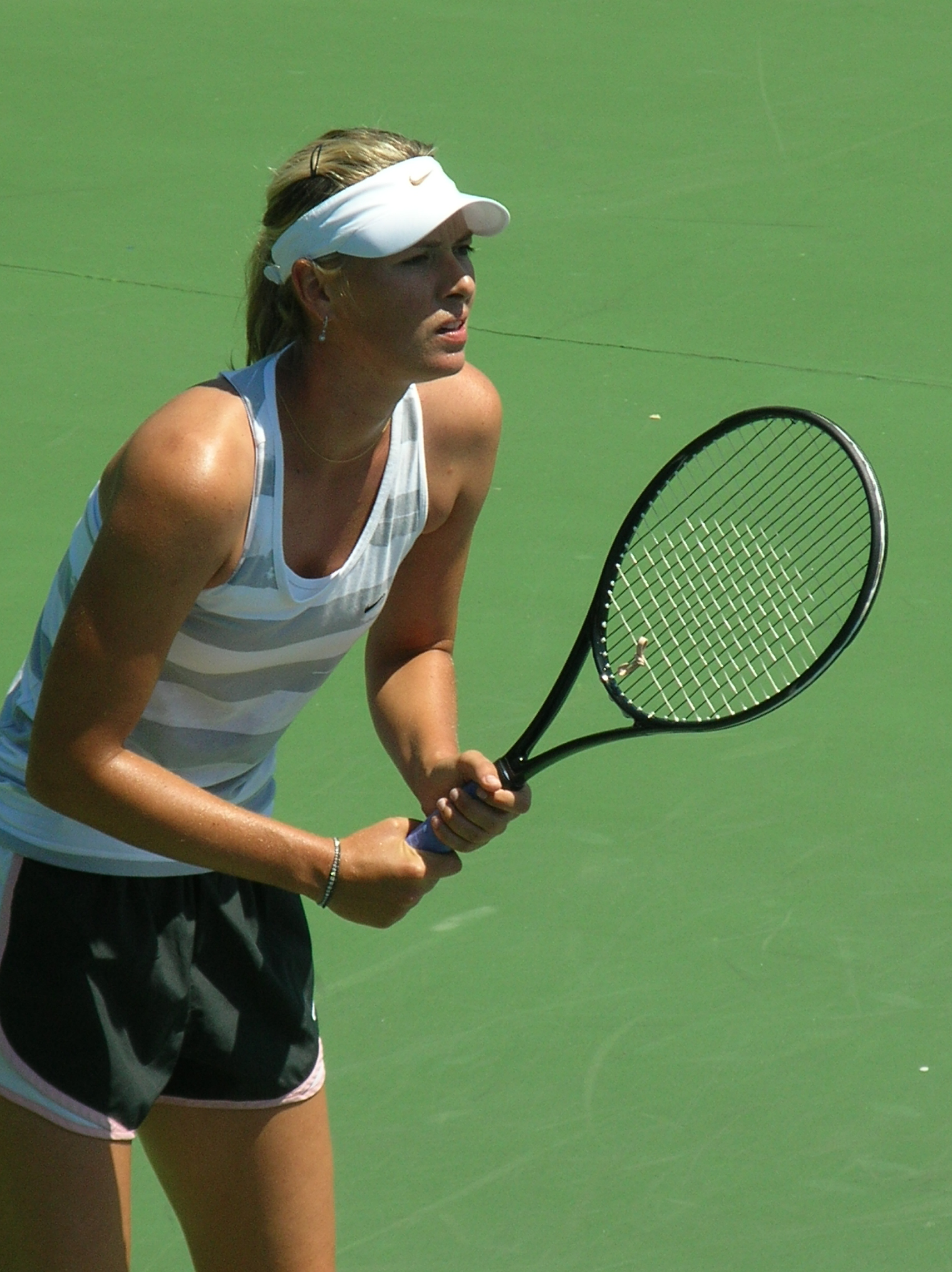 Maria Sharapova practicing at the Bank of the West Classic at Stanford.